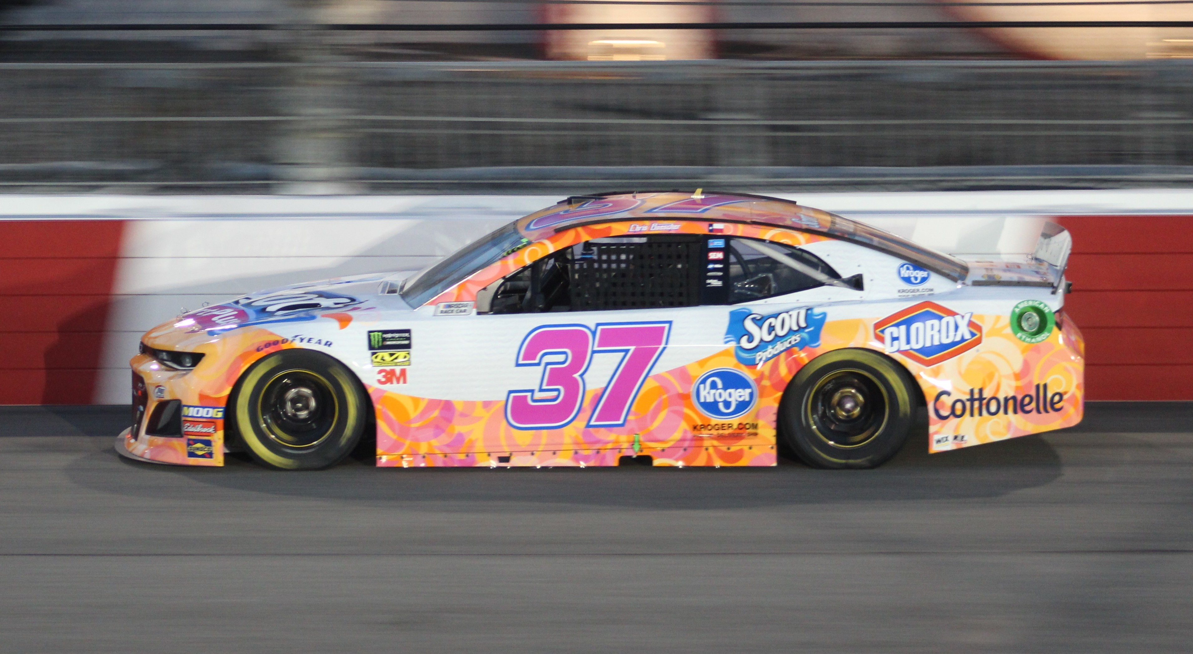 2019 Toyota Owners 400